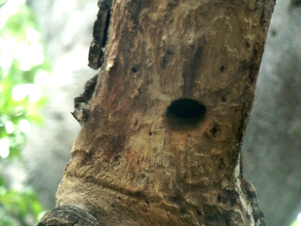 Active nest cavity of a yellow-fronted barbet on the underside of a branch, at Elandsfontein, Waterberg, Limpopo